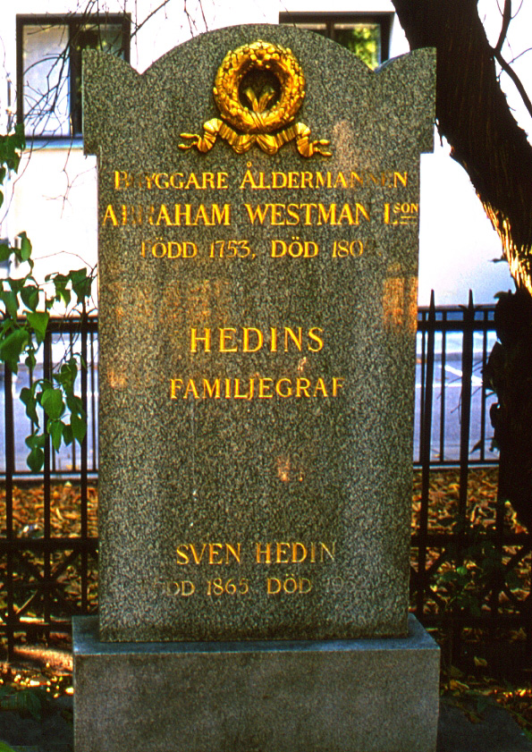 Sven Hedin's gravestone at Adolf Fredriks kyrkogård, Stockholm, Sweden.